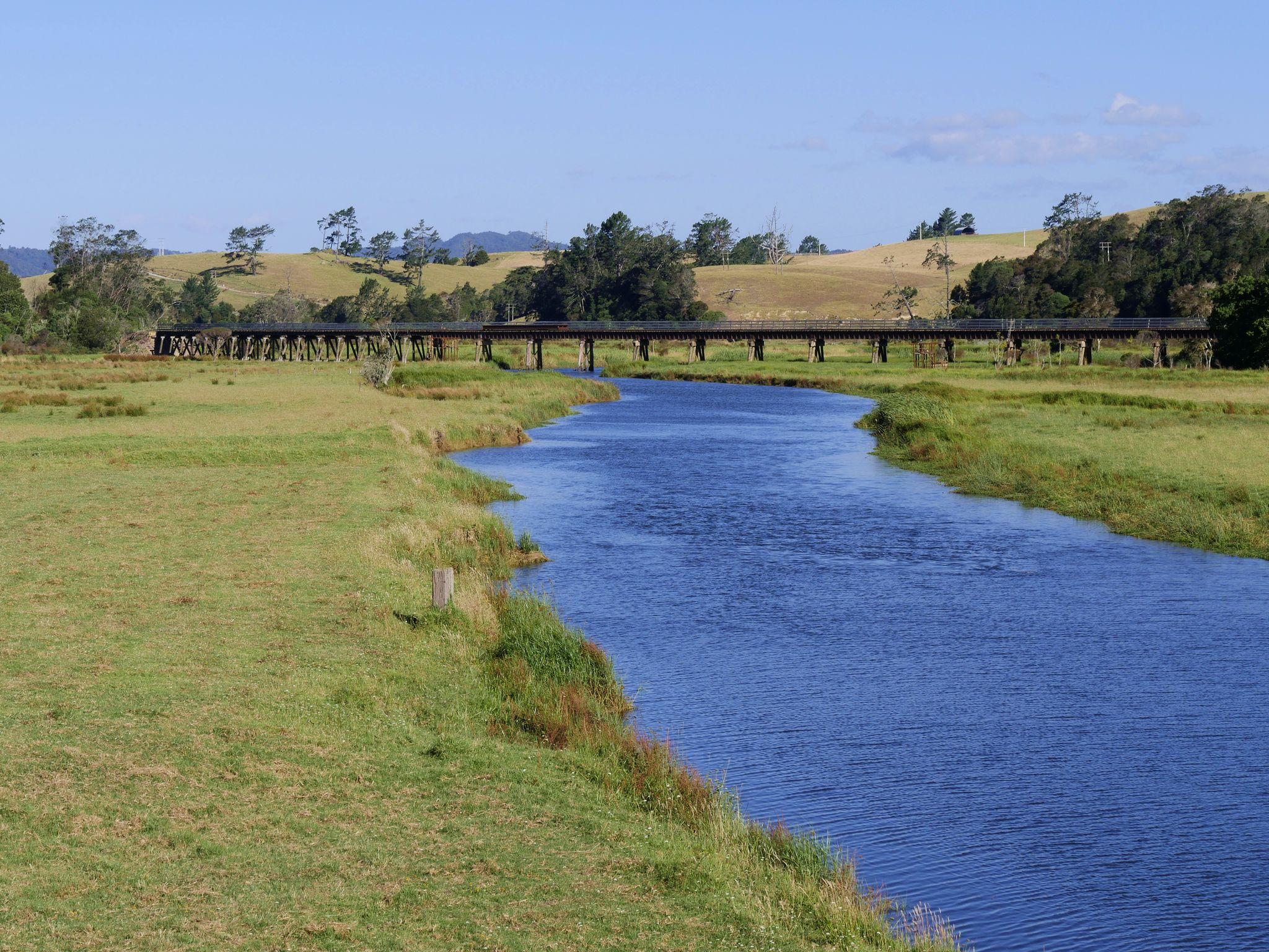 Kawakawa River, Northland, New Zealand, with Taumarere railway bridge, viewed from State Highway 11